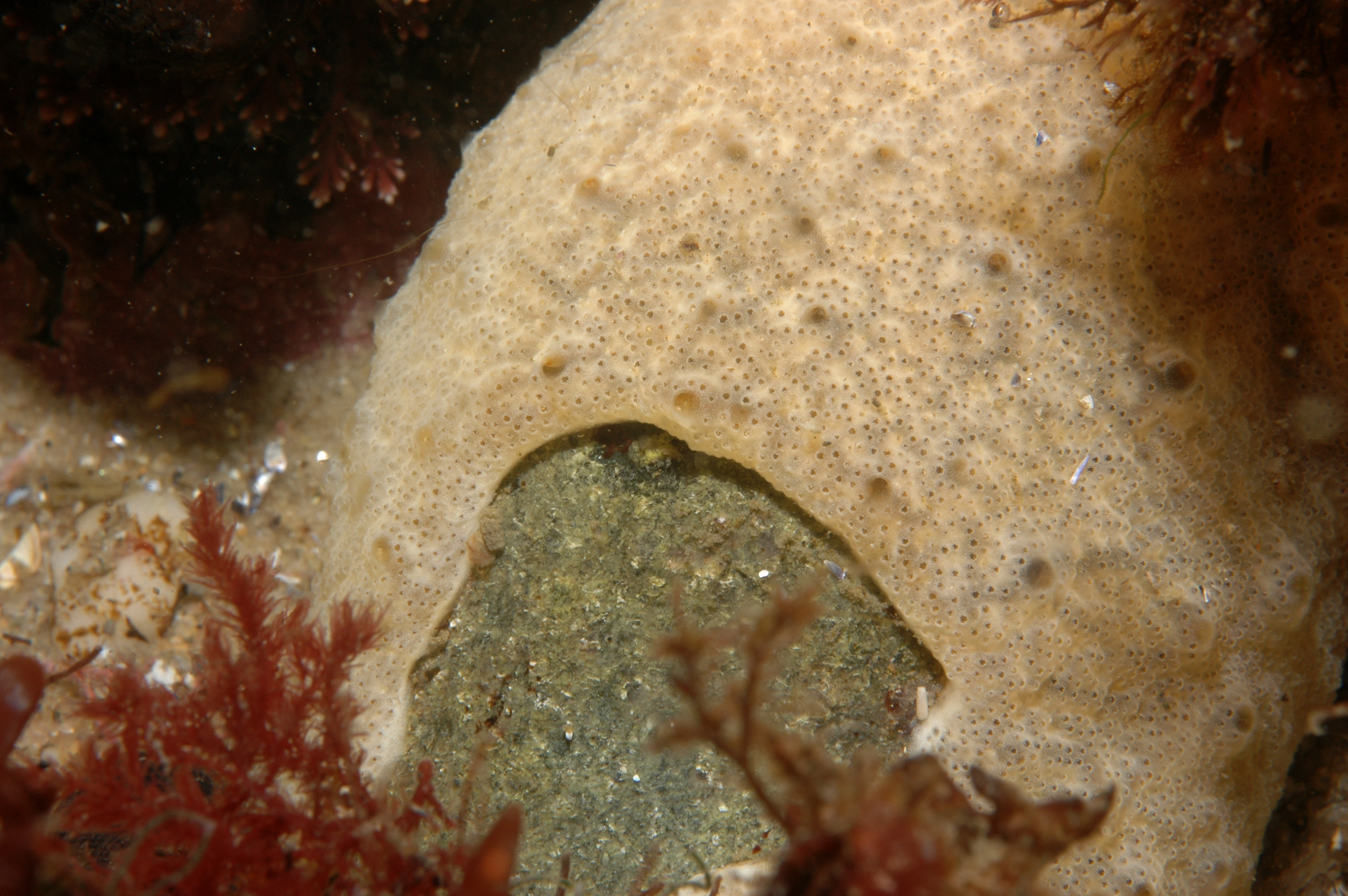 Image DB_STB_DSC3793. Tunicate colony of Didemnum vexillum overgrowing gravel. Large openings are cloacal apertures; brown material in them is interpreted to be fecal matter in cavities below the apertures. Sandwich town beach (41 deg 46.11 min N lat, 70 deg 28.95 min W lon). Water depth 4 m. November 7, 2006. Observers: Dann Blackwood (USGS) and Sandra Baldwin (USGS). Photo credit: Dann Blackwood (USGS). Location no. 80.